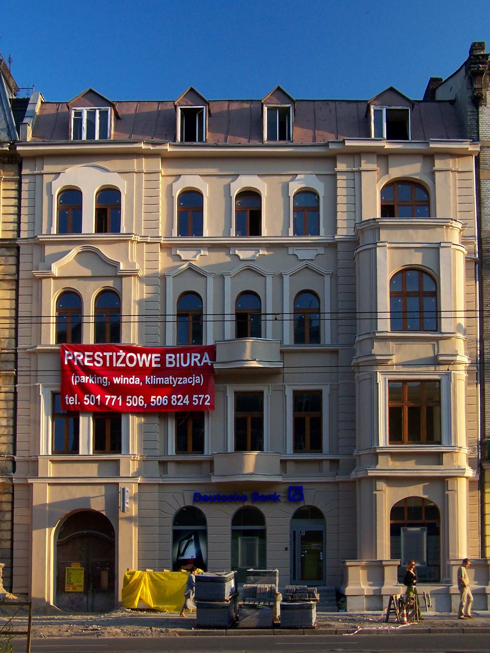 Warszawska Street in Katowice (Poland).